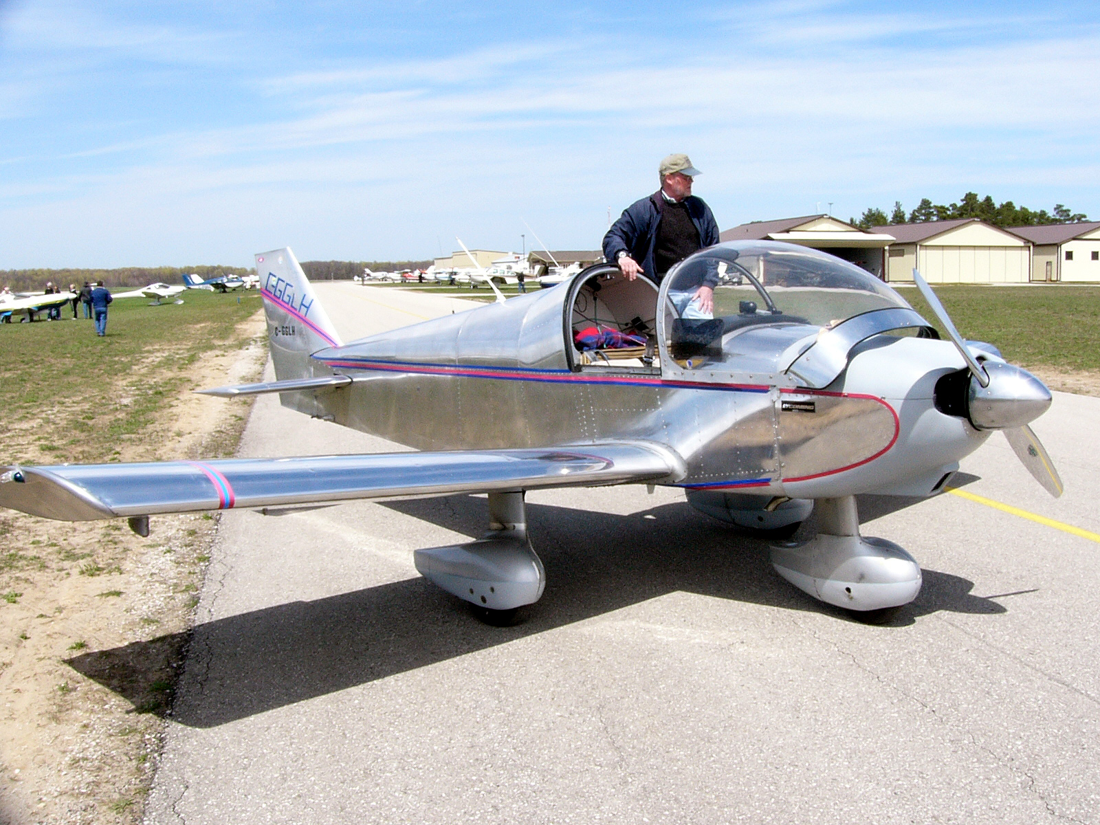 A Zenair CH 200 at the Hanover Rust Remover